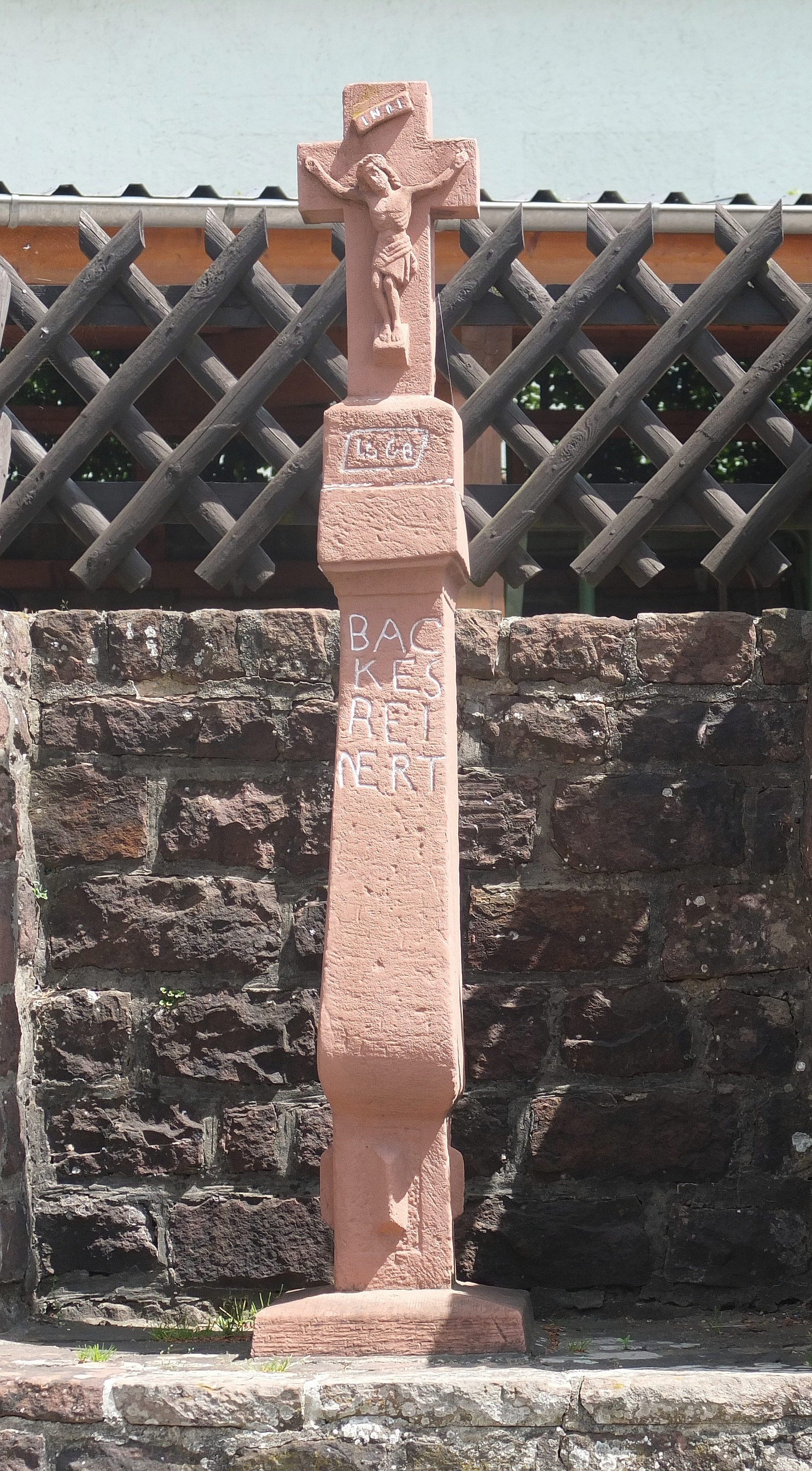 Wayside cross (1668) in Heidweiler This is a photograph of an architectural monument.It is on the list of cultural monuments of Heidweiler